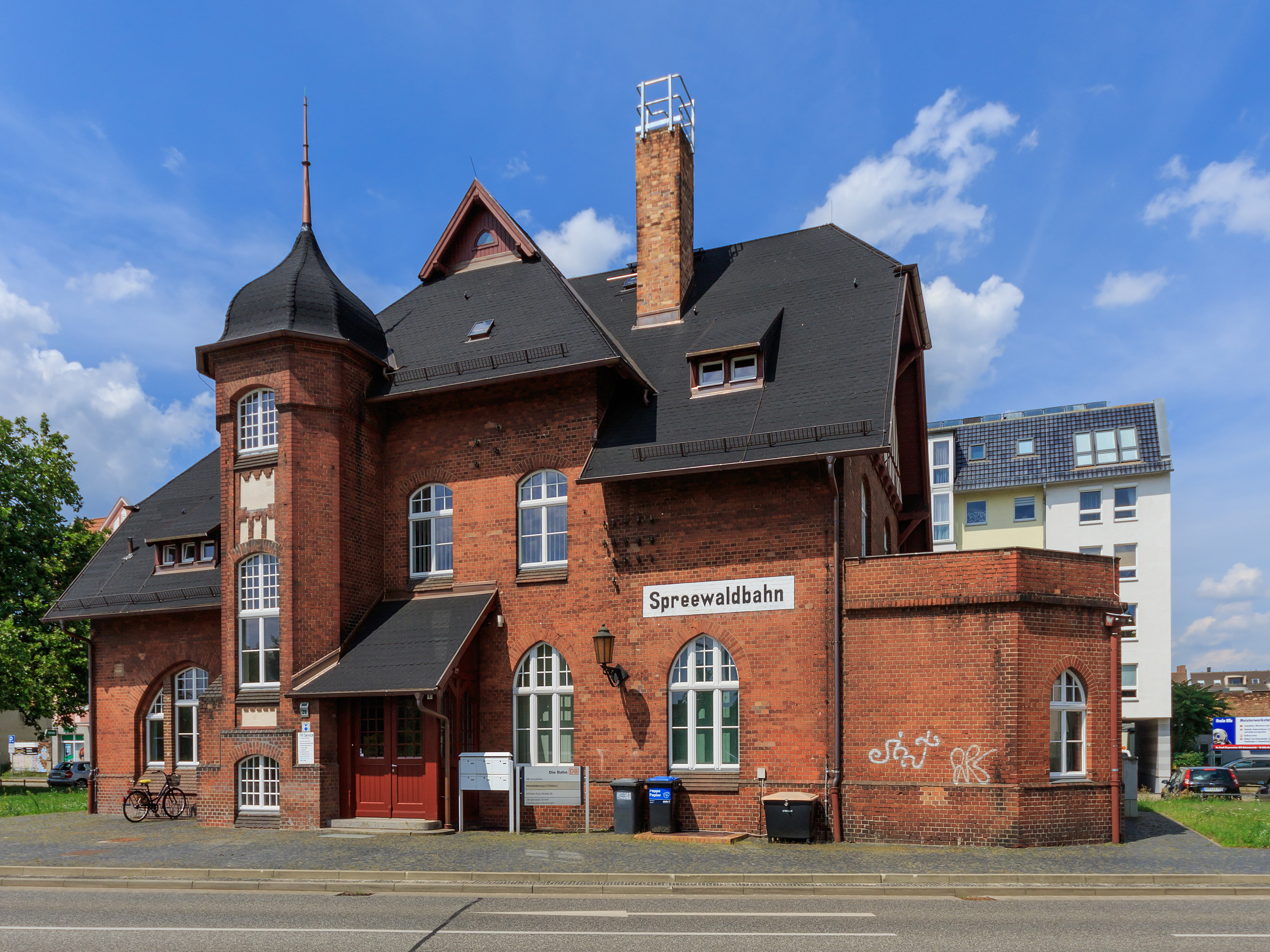 Former Spreewald terminus in Cottbus (Germany)